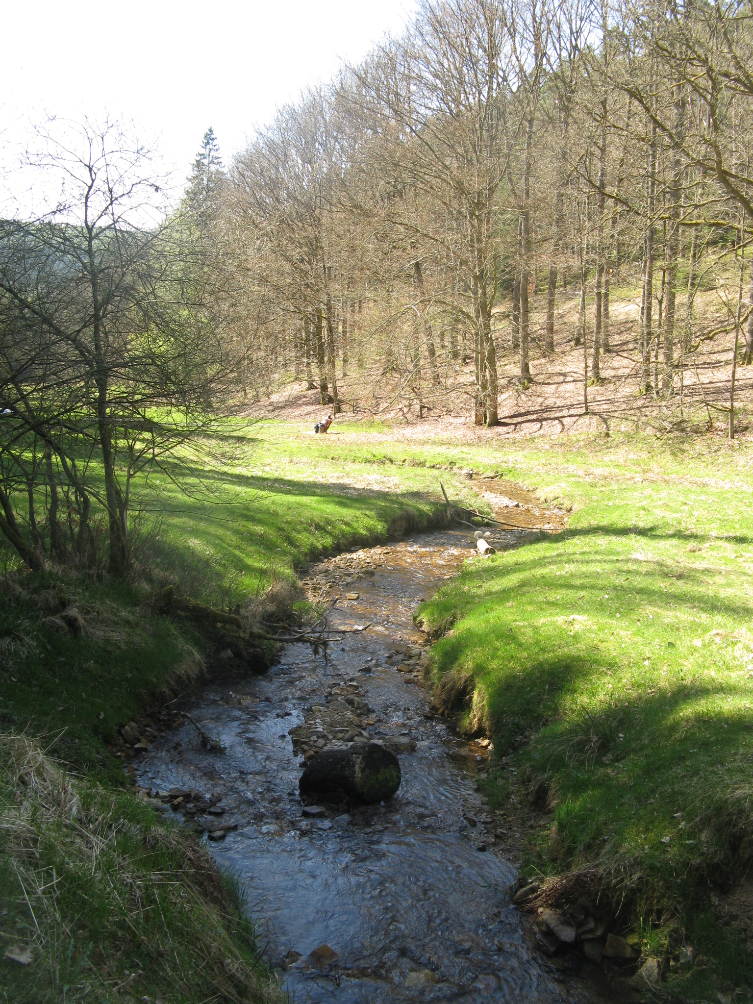 Hasel Valley, near Bad Orb/Spessart (Germany)